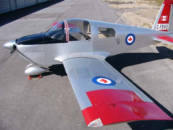 An American Aviation AA-1 Yankee (C-FBVQ) shows its leading edge